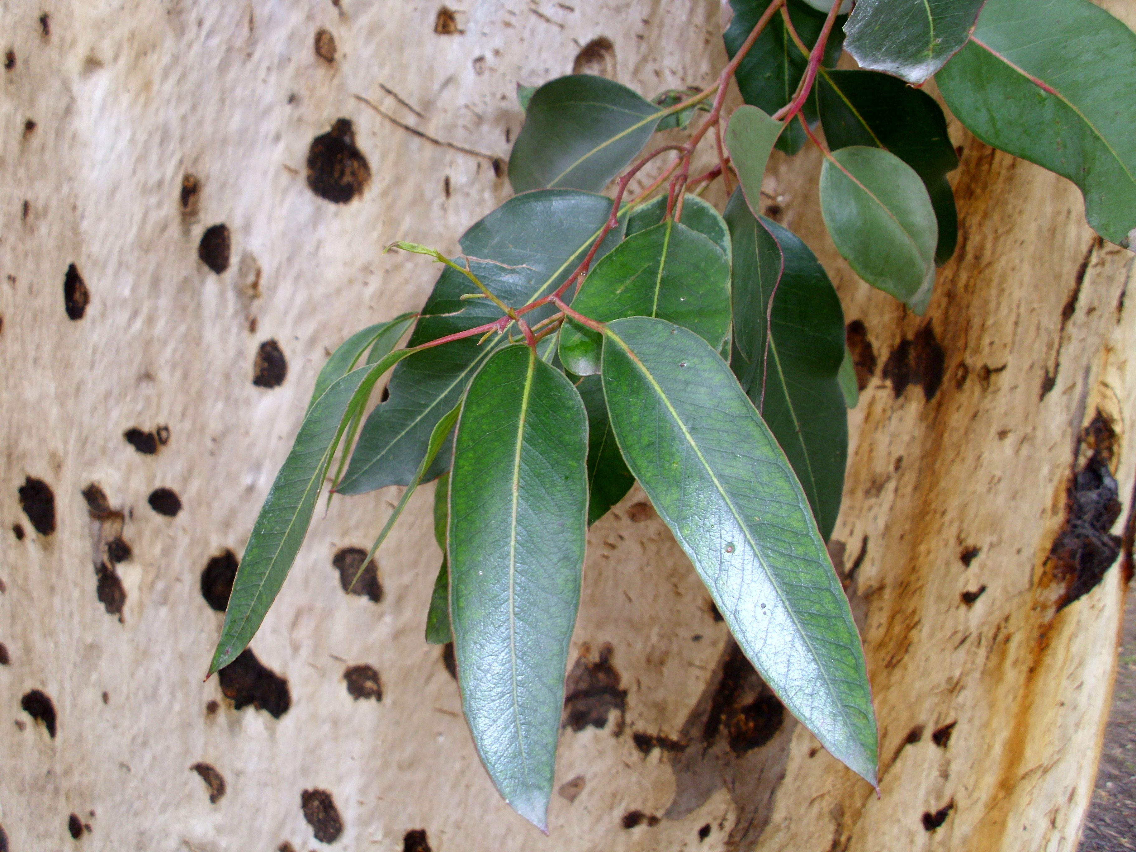 Eucalyptus cladocalyx leaves and bark photographed at the Victory Memorial Gardens in Wagga Wagga, NSW.